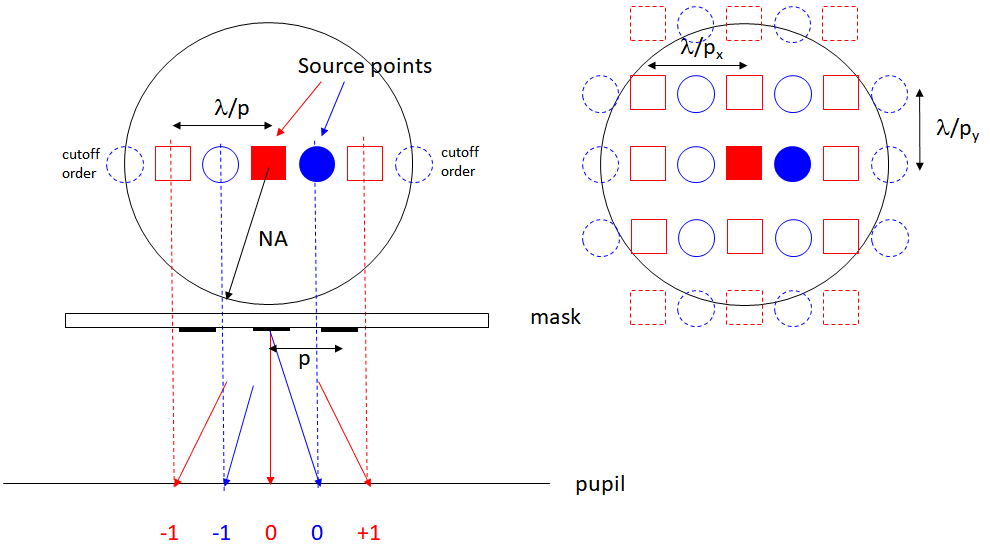 Each set of diffractive orders from the same source points are of the same color, and are separated by a distance of wavelength/pitch. Refs.: J. Finders et al., SEMI Technology Symposium, Semicon Japan 1999; N. Zeggaoui et al., Proc. SPIE 7823, 78233Y (2010).